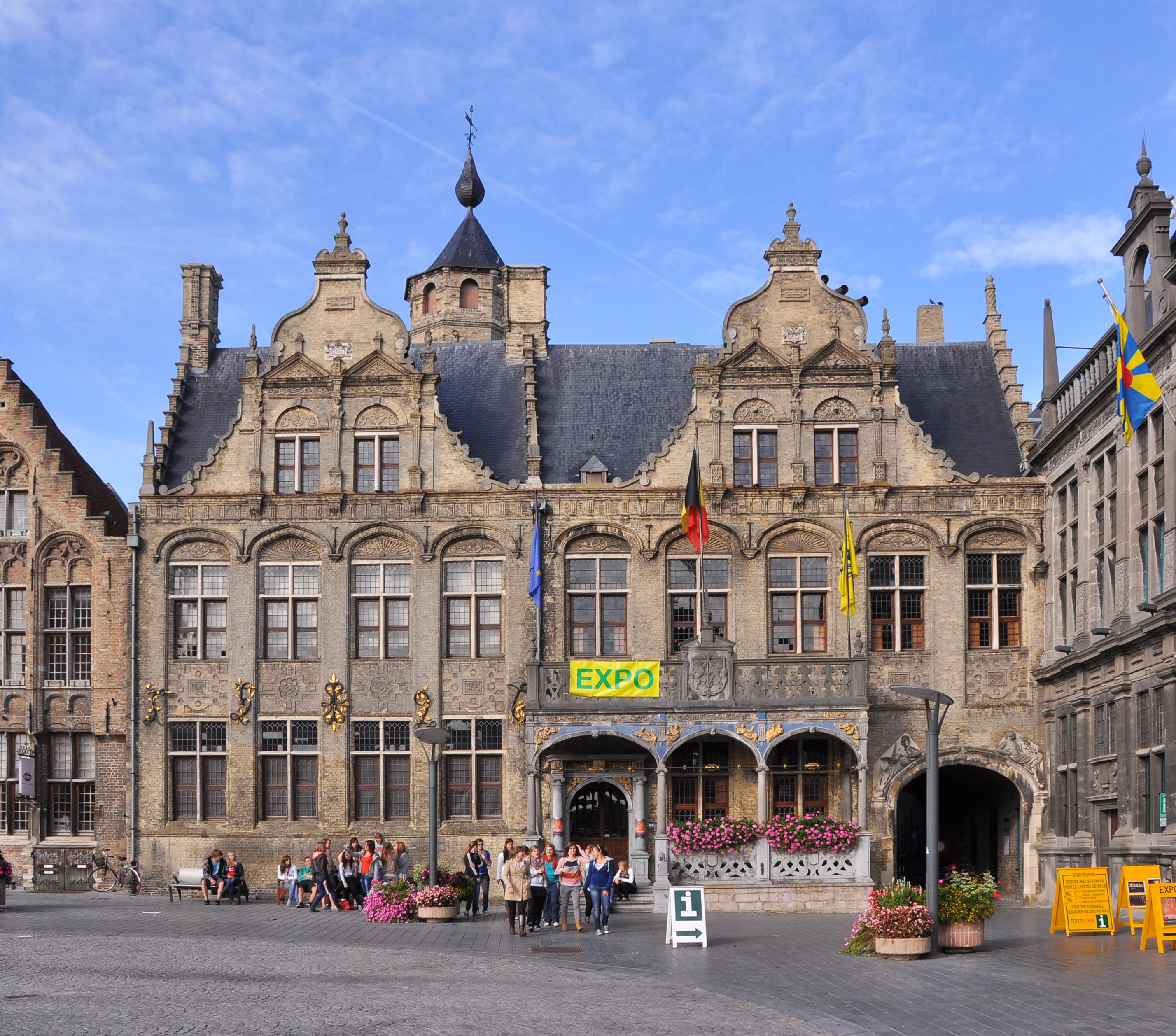 Veurne (Belgium): town hall